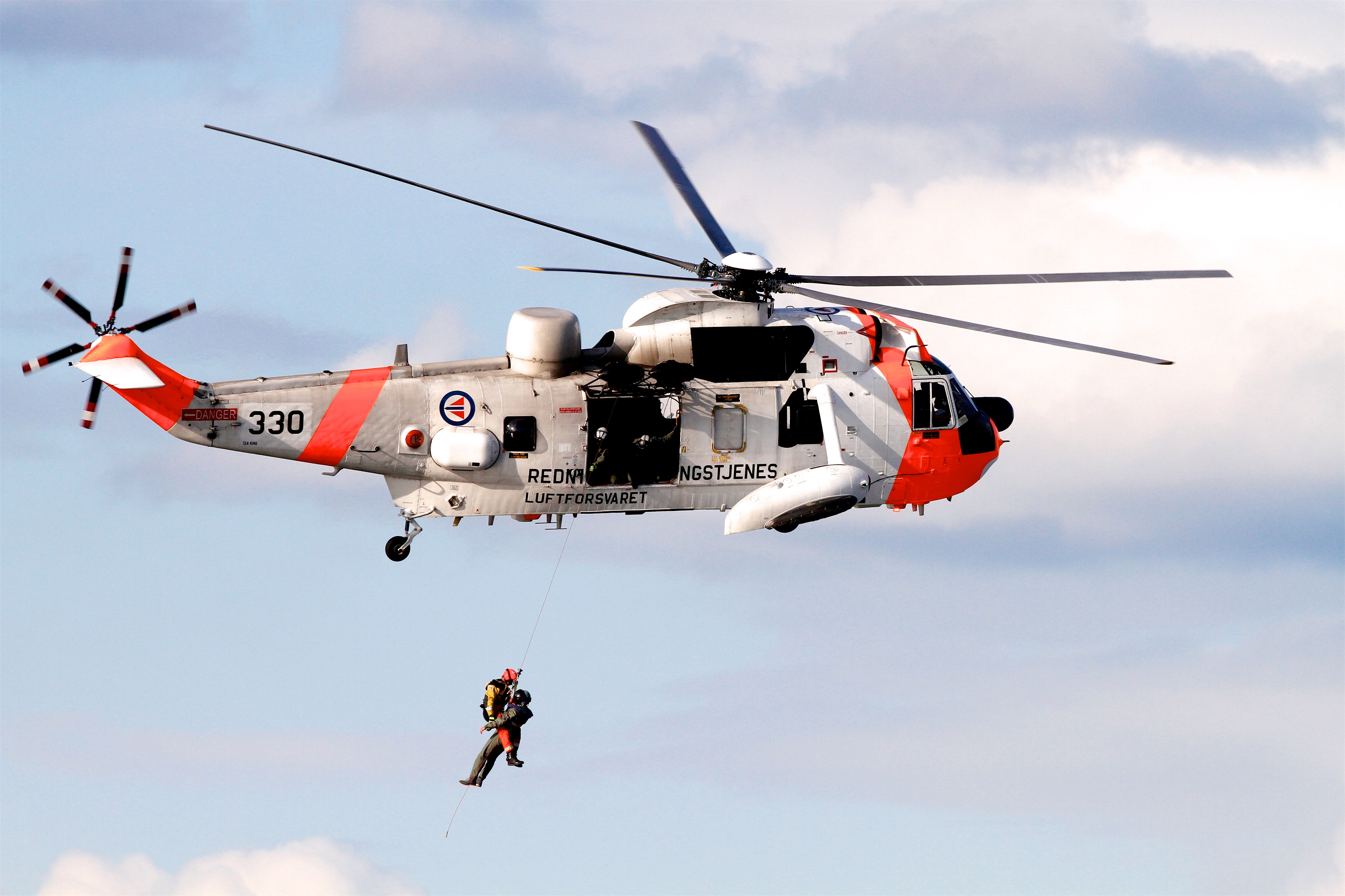 Royal Norwegian Air Force helicopter No. 330 hoists an operator and another person.